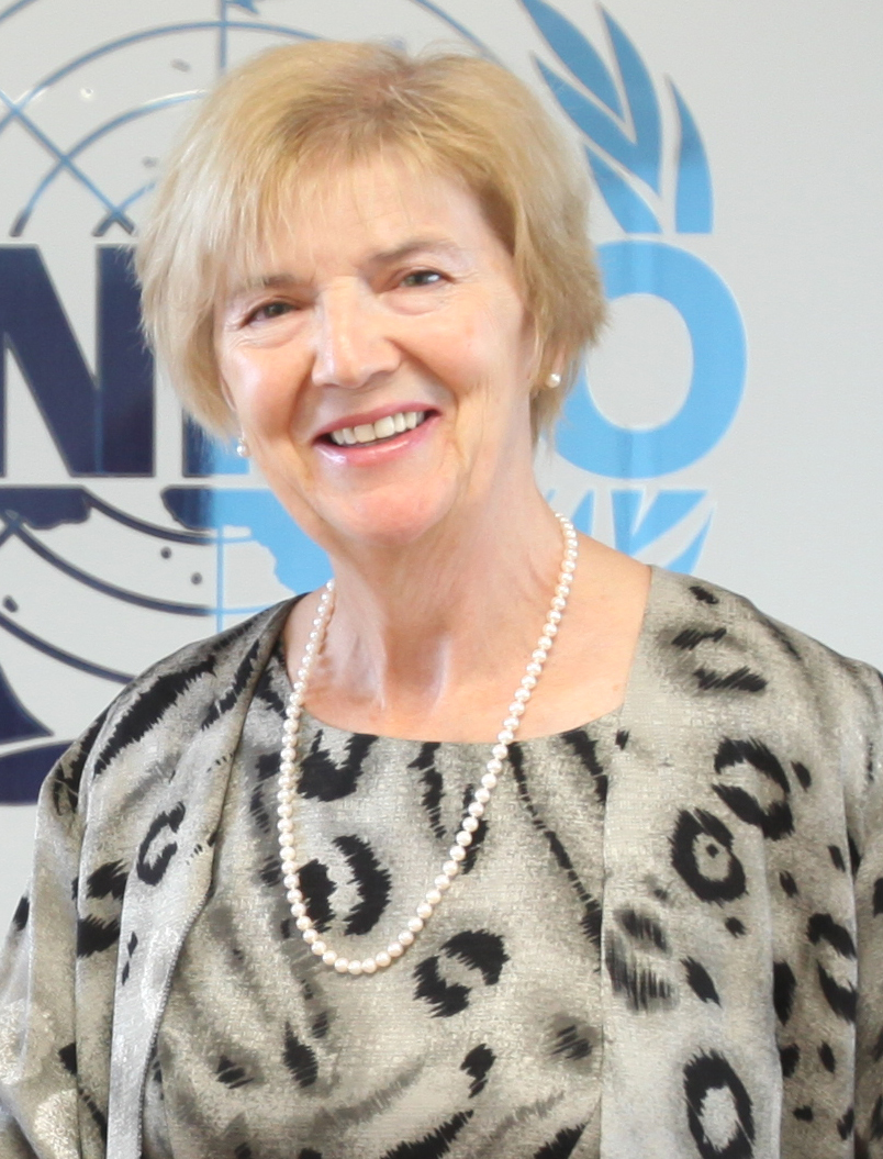 Ambassador Mary Whelan